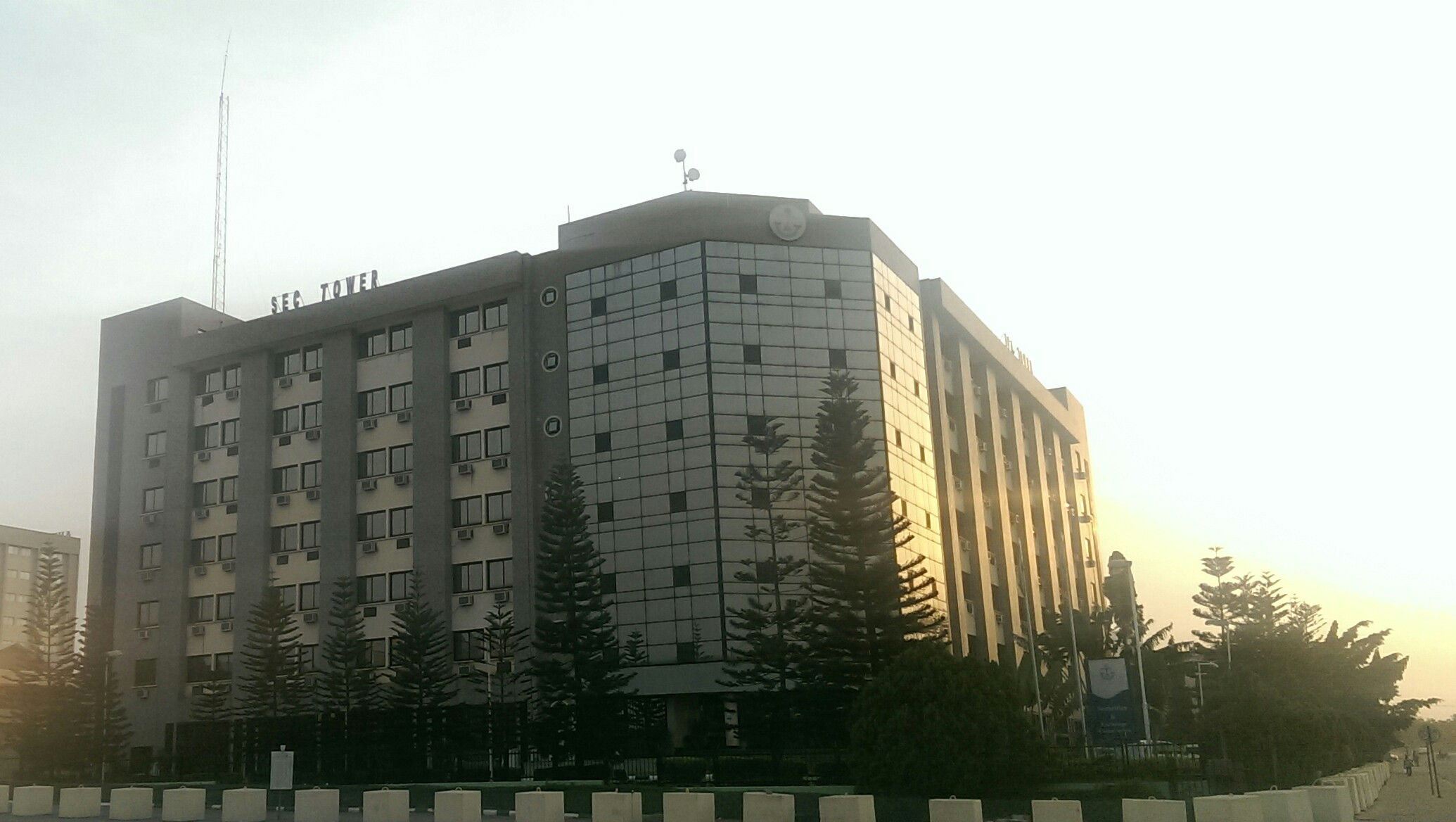 SEC Tower, home of the Securities and Exchange Commission.